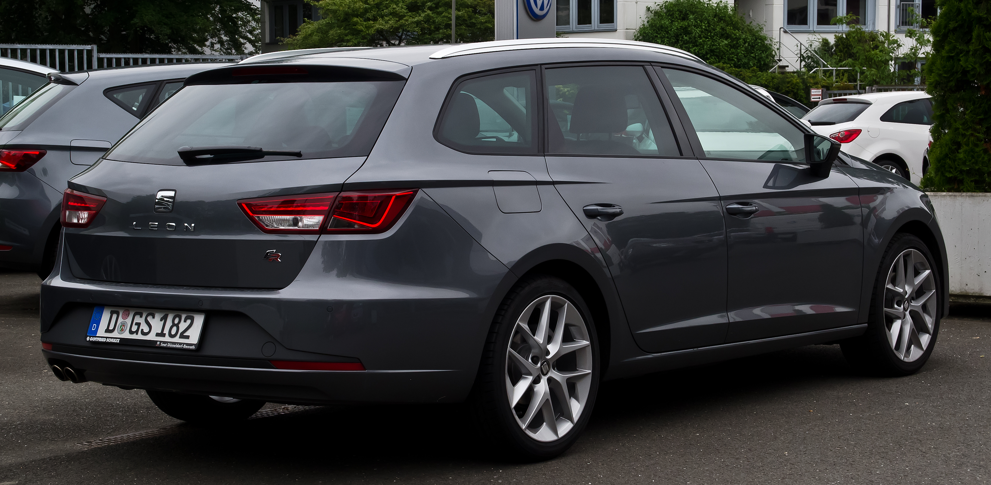 Seat Leon ST 1.4 TSI FR (III)